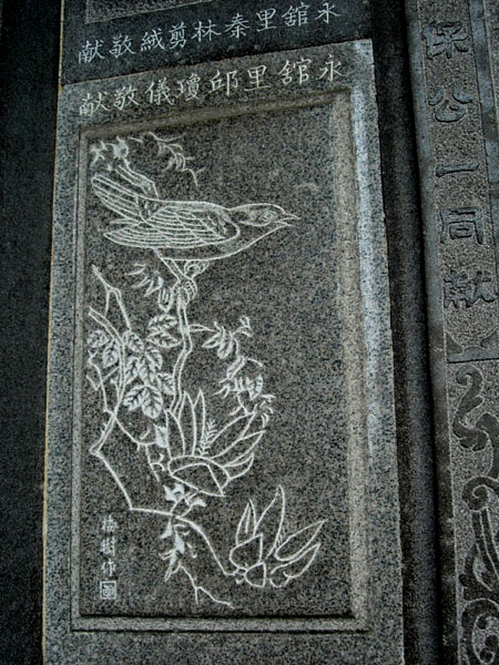 The wall sculpture of Mai-shu Lee.中文（台灣）: 李梅樹在三峽祖師廟的作品。